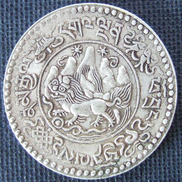 Tibetan 3 Srang coin, dated 16-20 ( = 1946), obverse